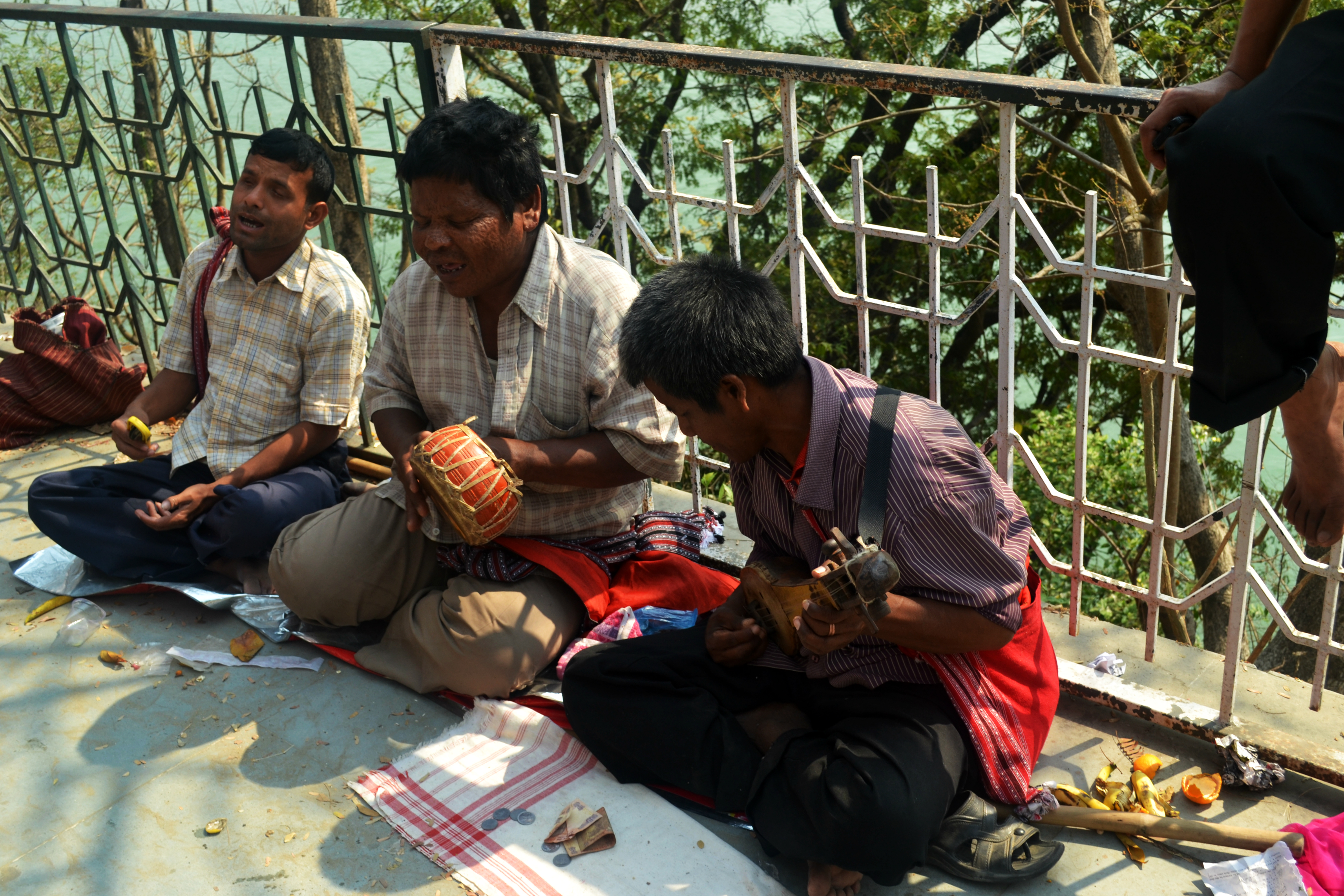 Singers performing Bhajan in Assamese language in front of Umanand temple, Guwahati, Assam